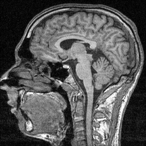 fMRI-scan of the central section of my own head, made with an Anatomical Tesla 1.5 scanner (at the FC Donders Centre, Nijmegen).